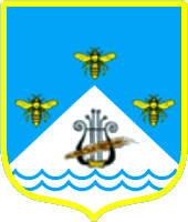 Coat of Arms of Uvarovo region (Tambov oblast)